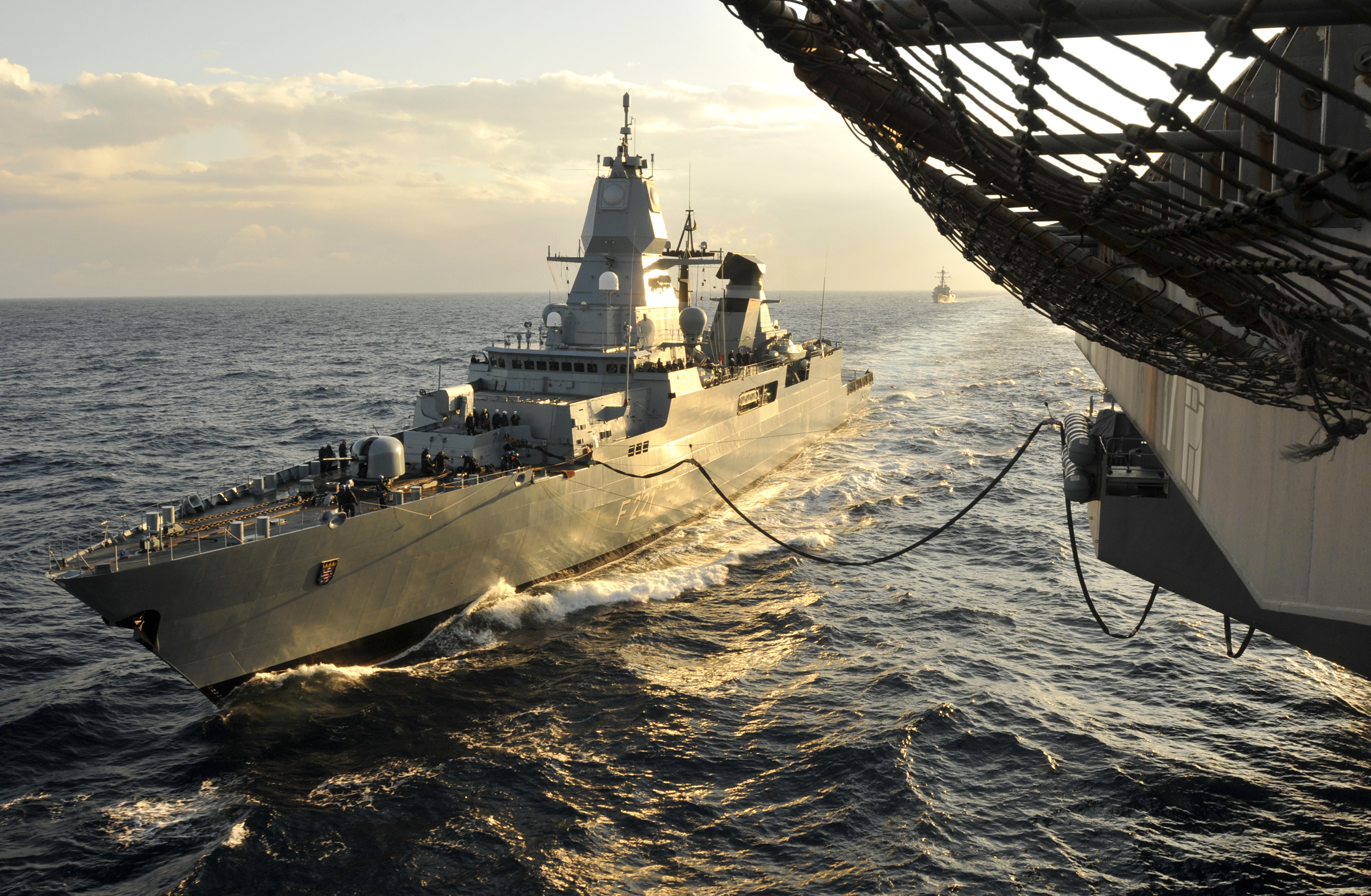 The German Navy frigate Hessen (F221) pulls alongside the aircraft carrier USS Dwight D. Eisenhower (CVN-69) for a refueling at sea off the U.S. East Coast, 5 November 2009.